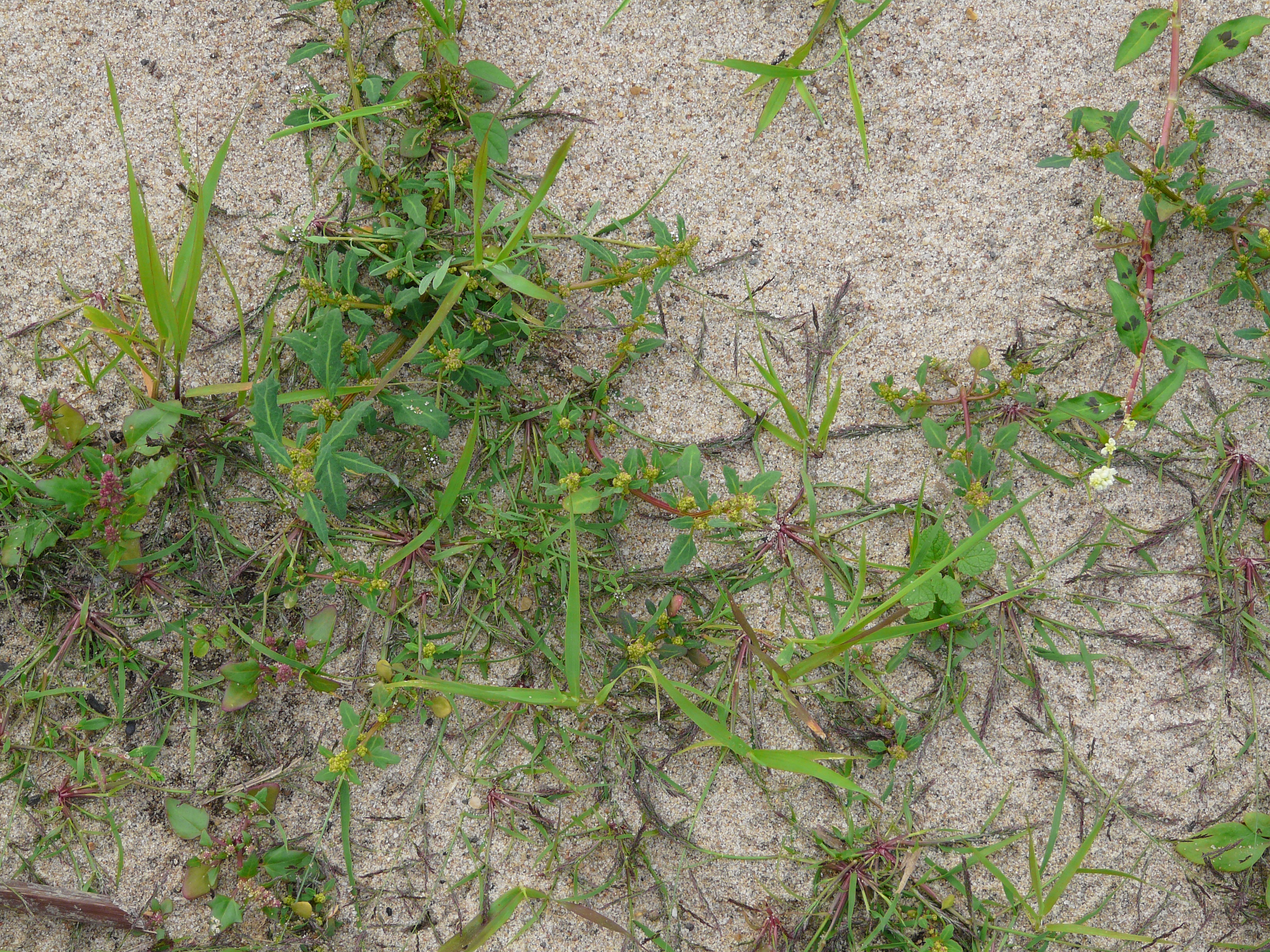 Chenopodium glaucum at Elbe river, Germany